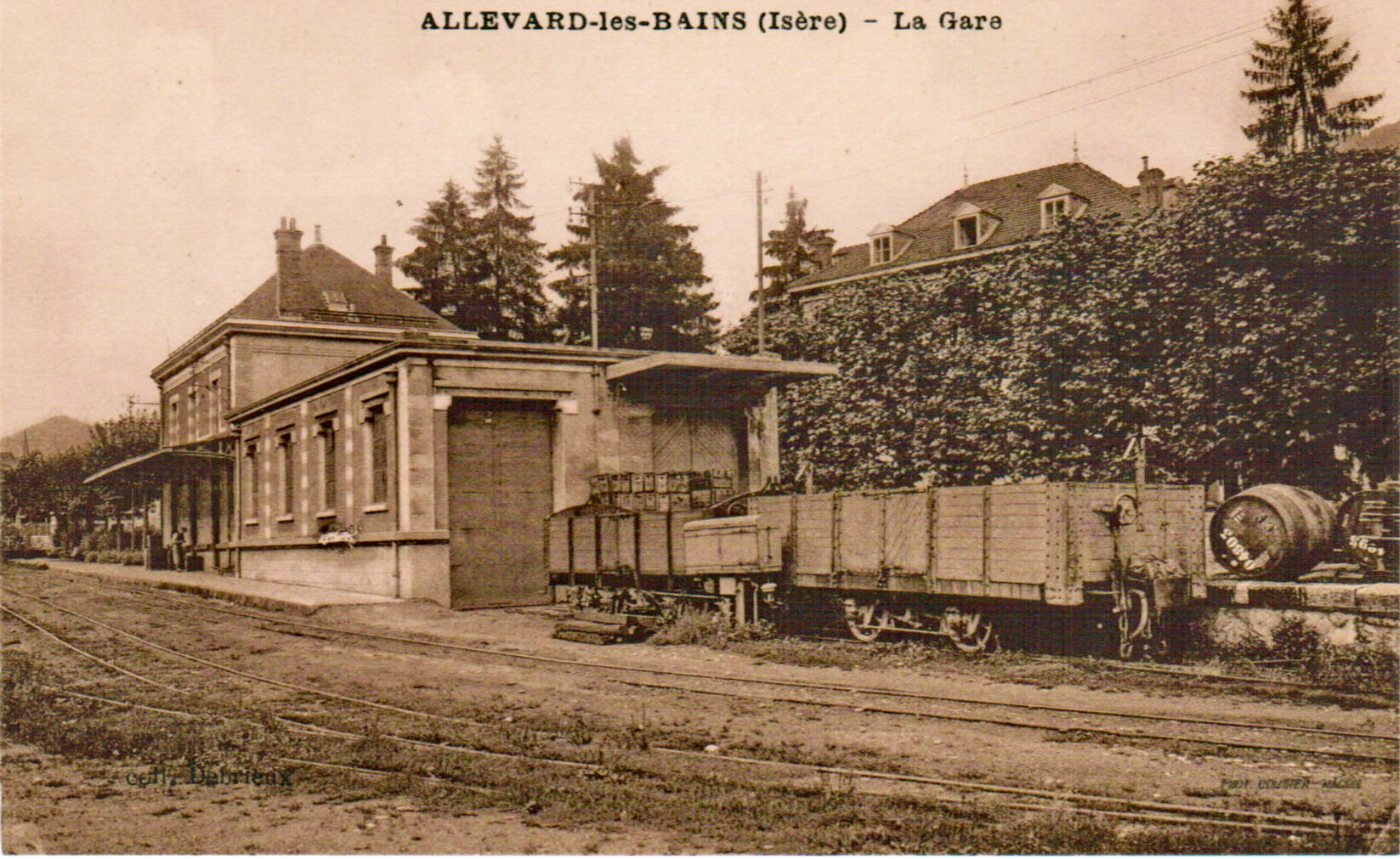 Carte postale ancienne éditée par Combier ALLEVARD-LES-BAINS (Isère) - La Gare (Terminus de la ligne du Tramway de Pontcharra à la Rochette et Allevard